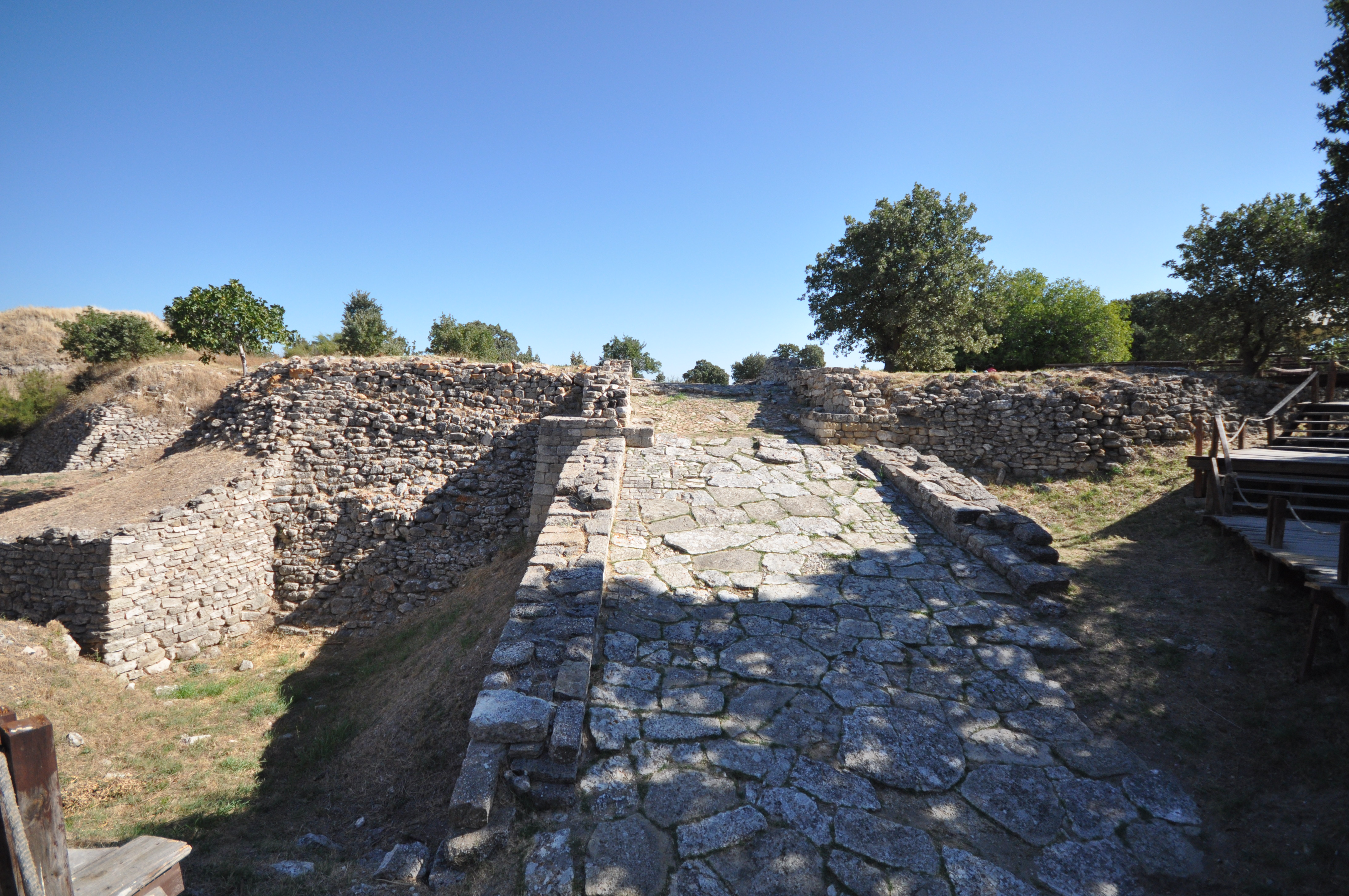 Troy was a city, both factual and legendary, in northwest Anatolia in what is now Turkey, south of the southwest end of the Dardanelles / Hellespont and northwest of Mount Ida. It is best known for being the setting of the Trojan War described in the Greek Epic Cycle and especially in the Iliad, one of the two epic poems attributed to Homer. Metrical evidence from the Iliad and the Odyssey seems to show that the name Ἴλιον (Ilion) formerly began with a digamma: Ϝίλιον (Wilion). This was later supported by the Hittite form Wilusa. A new city called Ilium was founded on the site in the reign of the Roman Emperor Augustus. It flourished until the establishment of Constantinople and declined gradually during the Byzantine era. In 1865, English archaeologist Frank Calvert excavated trial trenches in a field he had bought from a local farmer at Hisarlık, and in 1868, Heinrich Schliemann, wealthy German businessman and archaeologist, also began excavating in the area after a chance meeting with Calvert in Çanakkale. These excavations revealed several cities built in succession. Schliemann was at first skeptical about the identification of Hissarlik with Troy, but was persuaded by Calvert and took over Calvert's excavations on the eastern half of the Hissarlik site, which was on Calvert's property. Troy VII has been identified with the Hittite Wilusa, the probable origin of the Greek Ἴλιον, and is generally (but not conclusively) identified with Homeric Troy. Today, the hill at Hisarlik has given its name to a small village near the ruins, supporting the tourist trade visiting the Troia archaeological site. It lies within the province of Çanakkale, some 30 km south-west of the provincial capital, also called Çanakkale. The nearest village is Tevfikiye. The map here shows the adapted Scamander estuary with Ilium a little way inland across the Homeric plain. Troia was added to the UNESCO World Heritage list in 1998